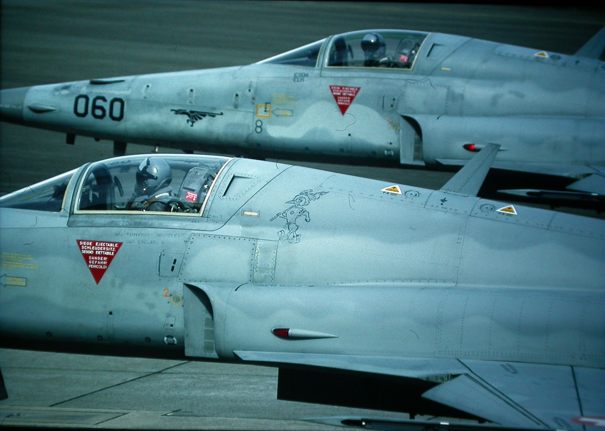 Low Visibility squadron emblem Squadron 6 on F-5E Tiger II J-3052 - on the rear aircraft J-3060, a No 1 Squadron emblem can be seen.